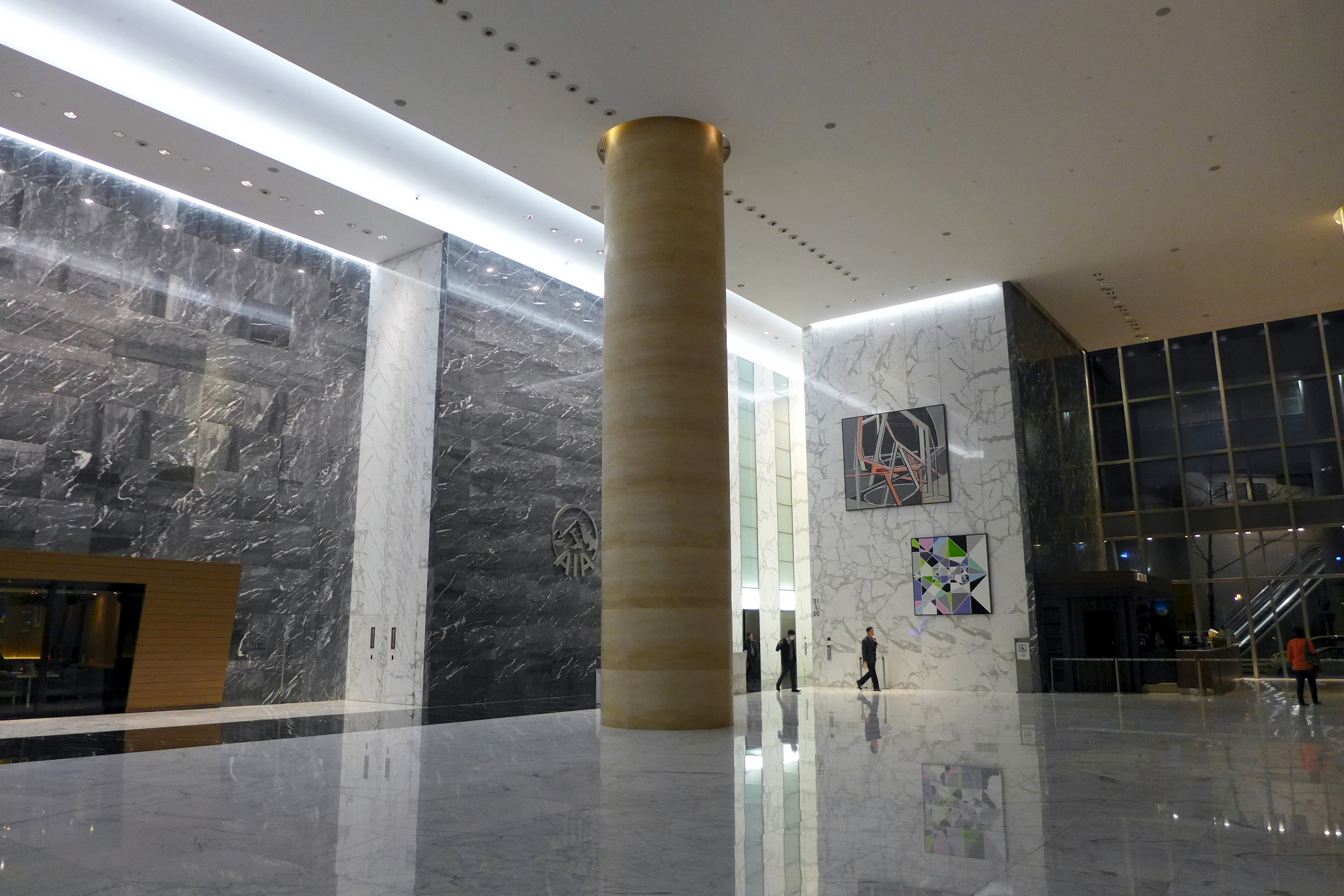 Landmark East AIA Tower Kowloon Office lobby